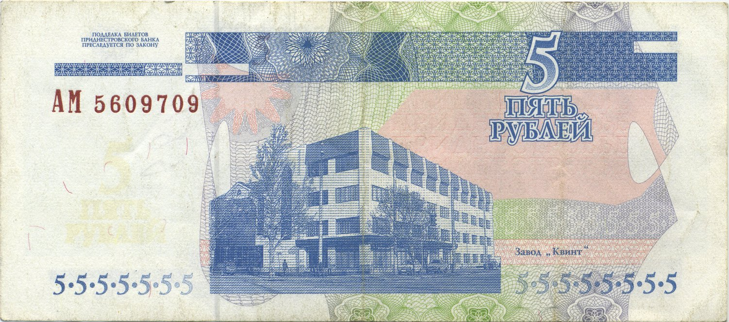 5 Transnistrian rubles (reverse)